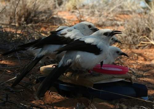 A group of Southern Pied Babblers (Turdoides bicolor) on a scale.